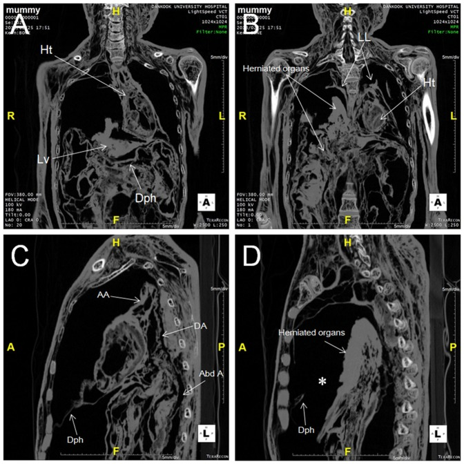 (A) Herniated liver (Lv) could be seen while diaphragm (Dph) is visible underneath. (B) Herniated organs stretching from abdominal to thoracic cavities could be clearly seen. Ht, heart; LL, lung. (C) and (D) Sagittal CT images of Andong mummy. (C) Diaphragm (Dph) is clearly seen between thoracic and abdominal cavity. (D) Herniated organs could be observed through the diaphragmatic defect (asterisk). AA, ascending aorta; DA, descending aorta; Abd A, abdominal aorta.